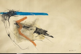 Carlo Alfano, opera grafica